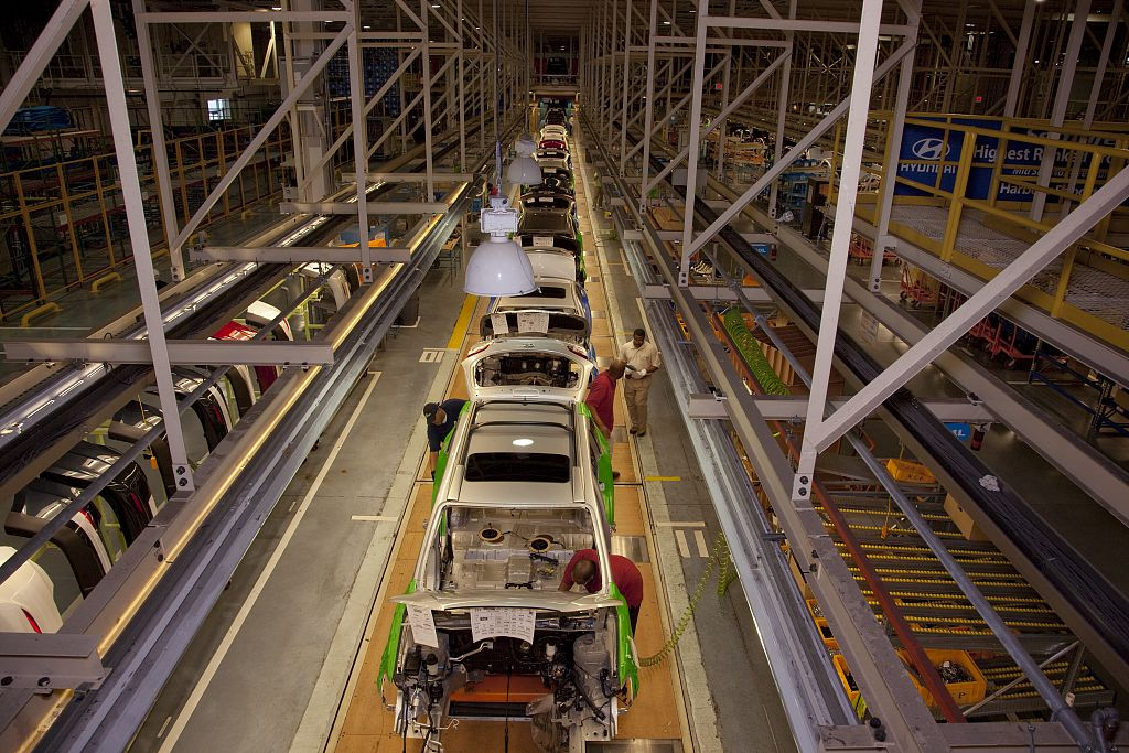 Hyundai Motor Manufacturing Alabama in Montgomery, Alabama.